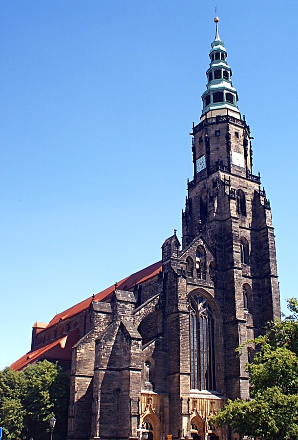 Church of St. Stanislav and Vaclav, Świdnica (Poland)